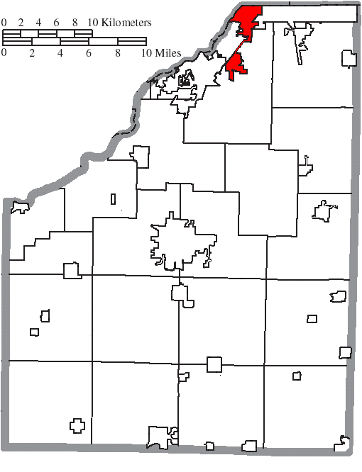 Map of the municipal and township boundaries of Wood County, Ohio, United States, as of the 2000 census, with the location of the city of Rossford highlighted. Township borders are shown only in unincorporated areas in order to differentiate incorporated and unincorporated areas more clearly.